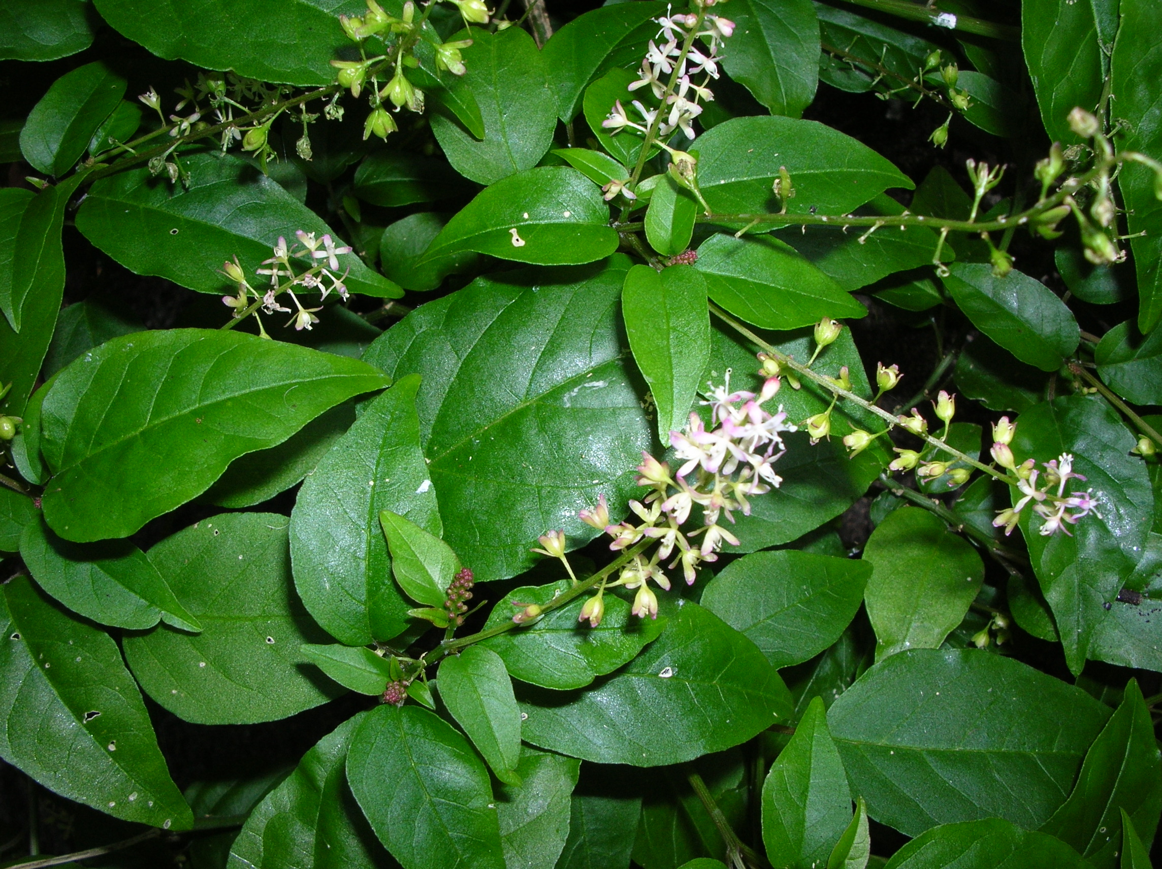 Rivina humilis (flowers). Location: Oahu, Mokuauia